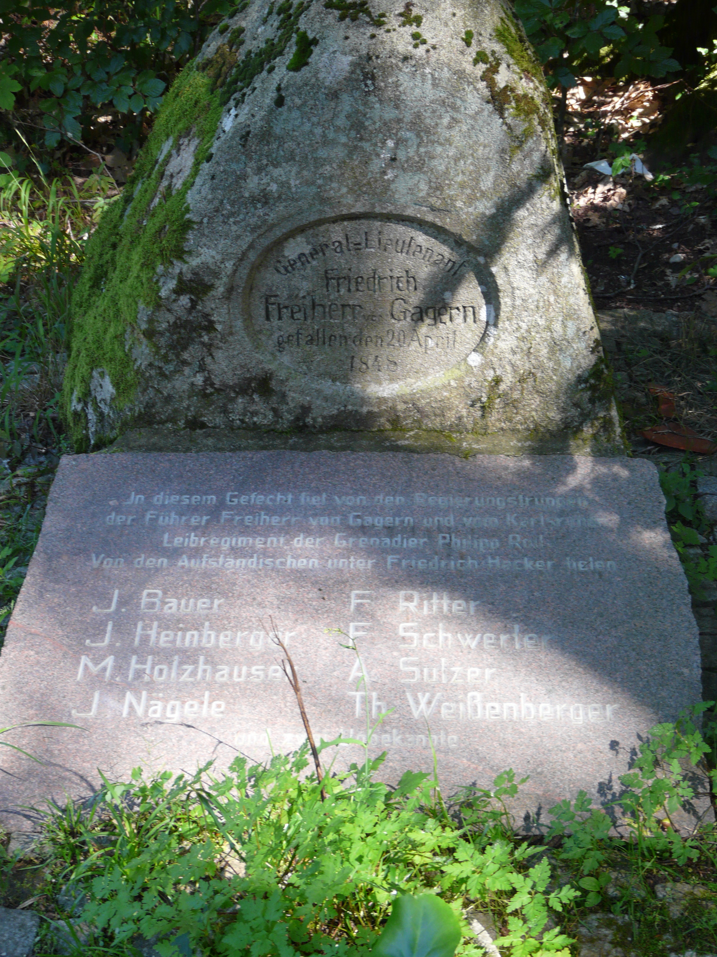 Memorial for General Friedrich von Gagern, one of his soldiers and ten opposing revolutionaries that were all killed during the Battle of the Scheideck (April 20, 1848), near Kandern